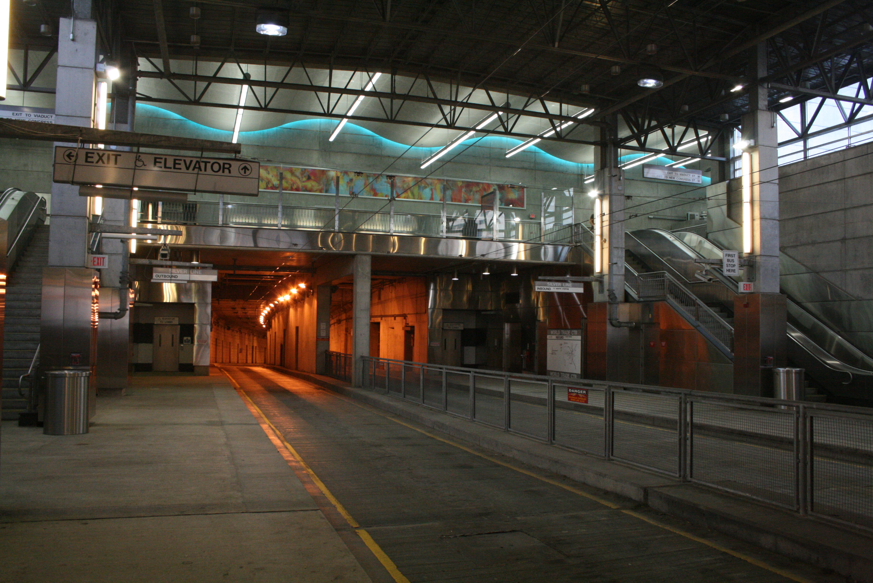 The World Trade Center stop on Boston's Silver Line (MBTA) Bus Rapid Transit route.